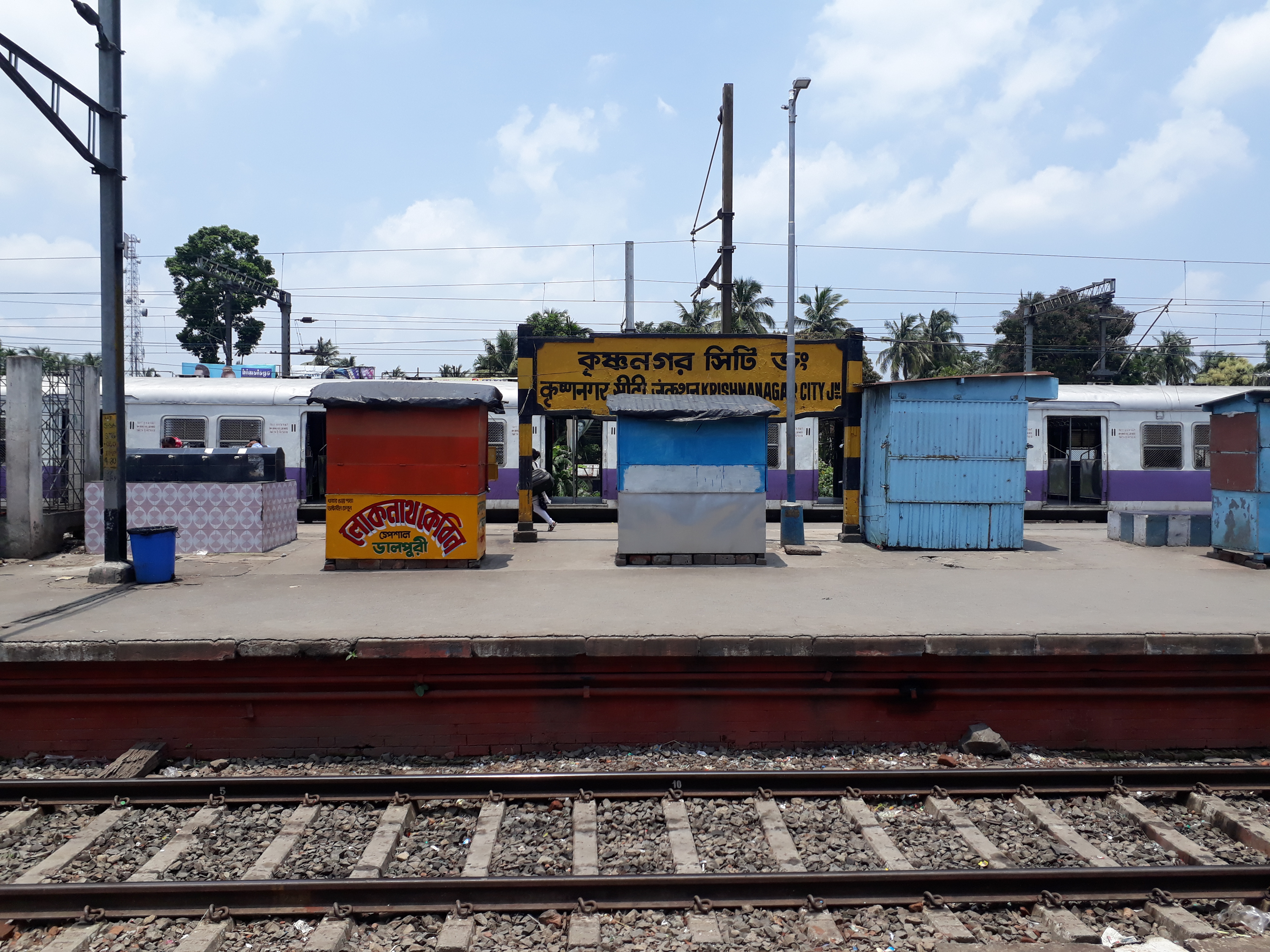 Krishnanagar City Junction railway station on Sealdah Lalgola line, Nadia district, West Bengal